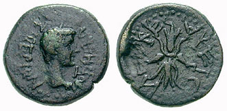 LYDIA, Philadelphia. Tiberius Gemellus(?), co-heir of Tiberius. Æ 16mm (3.18 gm). Struck circa 35-37 AD. TIBERION [CEBACTON], bare head of Tiberius Gemellus(?) right / N[EO]KEC"PEIC, winged thunderbolt. RPC I 3017 (same obverse die as those plated); SNG Leypold 1111 (same dies); SNG Copenhagen 373 (same obverse die). Good Fine, dark green patina. Extremely rare.